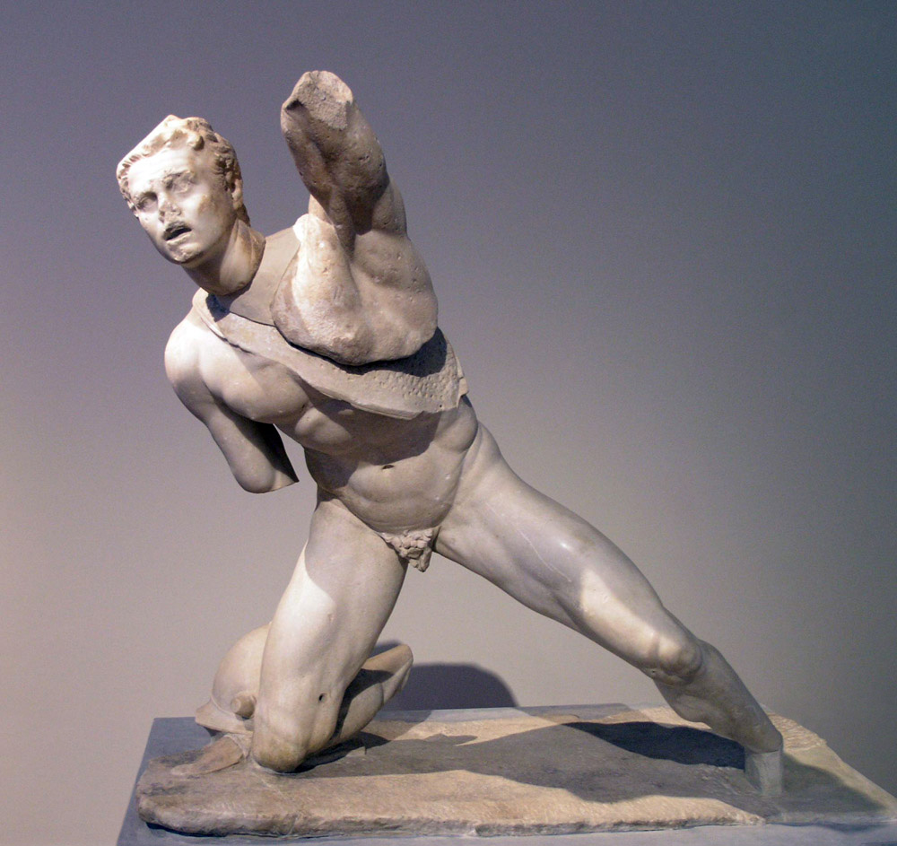 Wounded Gaul warrior. Parian marble, late Hellenistic artwork of the Pergamenian school, ca. 100 BCE. Found in the Italian Agora in Delos.